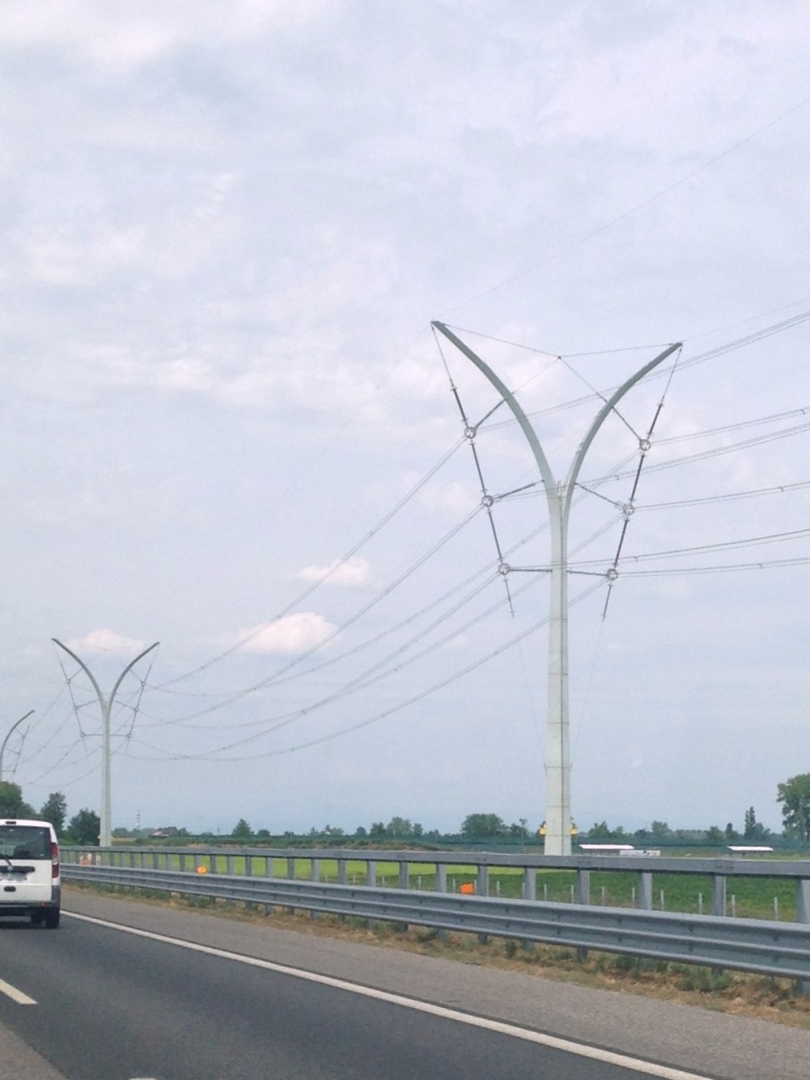 Extravagant electricity pylon design called "Germoglio" (Italian: ~shoot/seedling), double-circuit 380 kV power line Trino–Lacchiarella (pilot project, built in 2014/15), along A7 in Battuda near Pavia, Italy